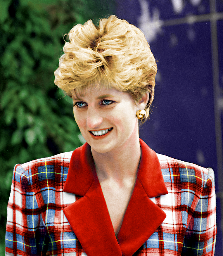 Princess Diana opens The Paisley Centre and pays a visit to the Accord Hospice.